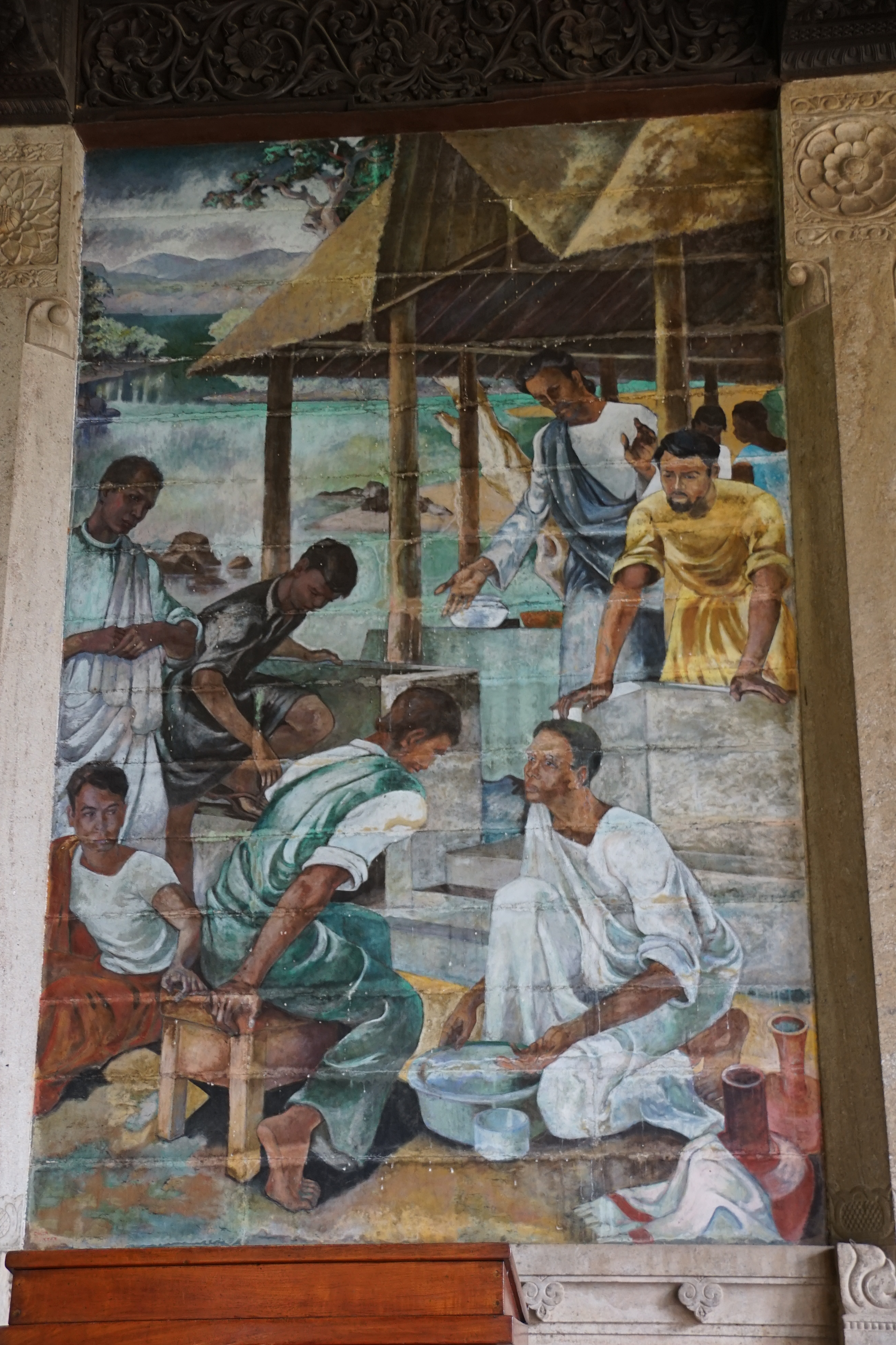 "Washing the Disciples Feet", a mural painted by David Paynter in 1965, located above the lectern at Trinity College Chapel, Kandy